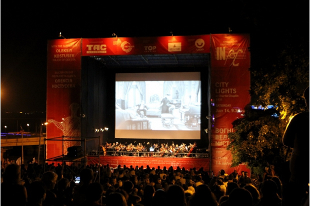 CITY LIGHTS" SCREENING AT THE POTEMKIN STAIRS/ Odessa International Film Festival 2012